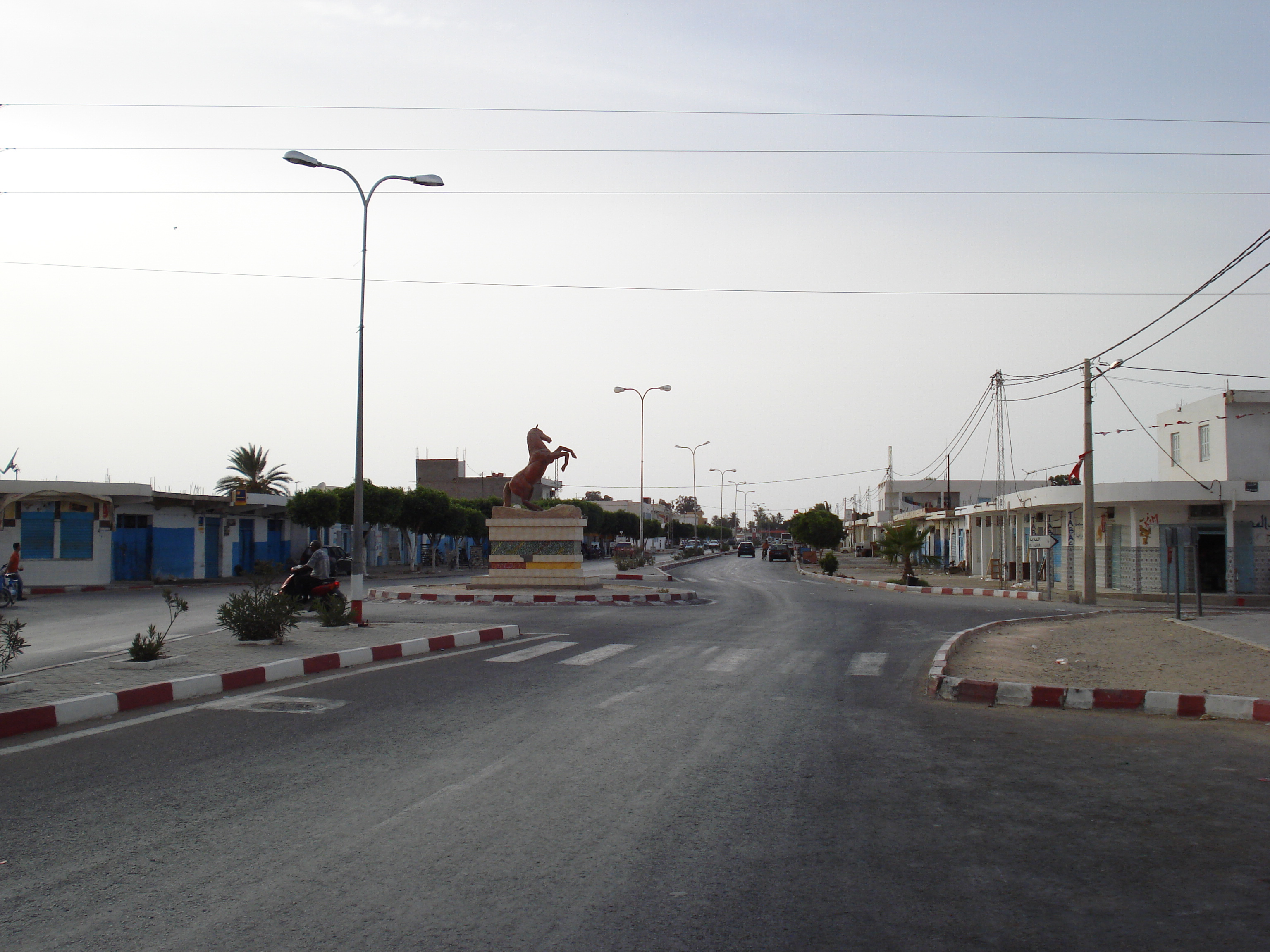 Mareth, Tunisia